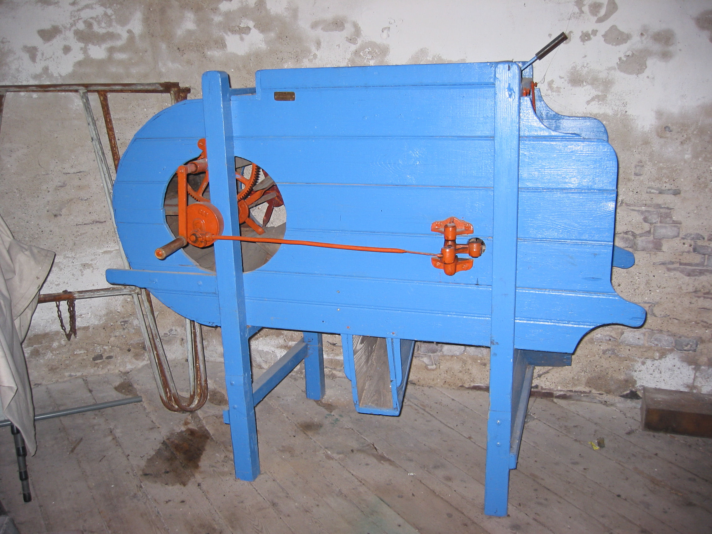 Winnowing machine